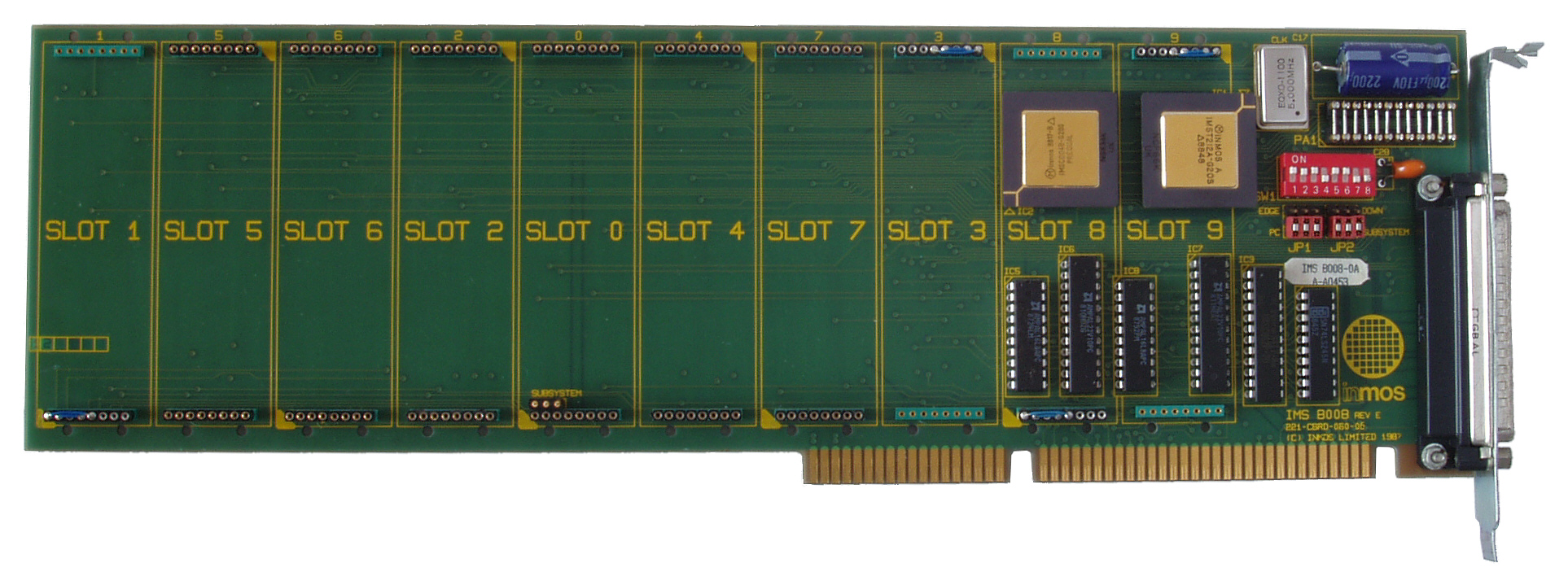 INMOS transputer evaluation platform IMSB008, no modules mounted